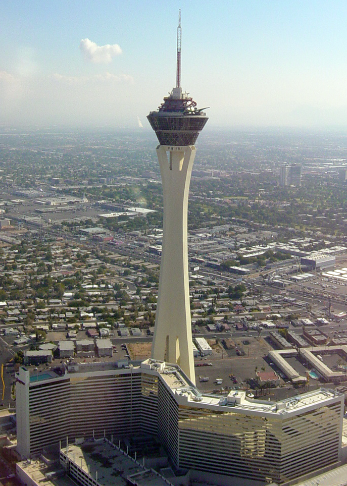 An aerial view of The Stratosphere Las vegas during November 2003. and...